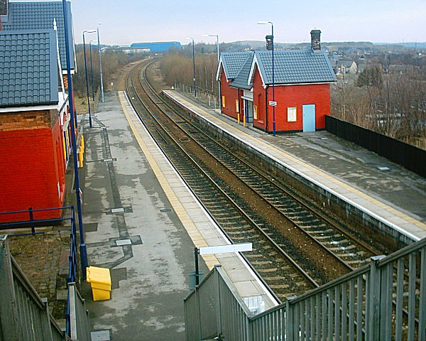 Woodhouse Station, Sheffield in 2004.